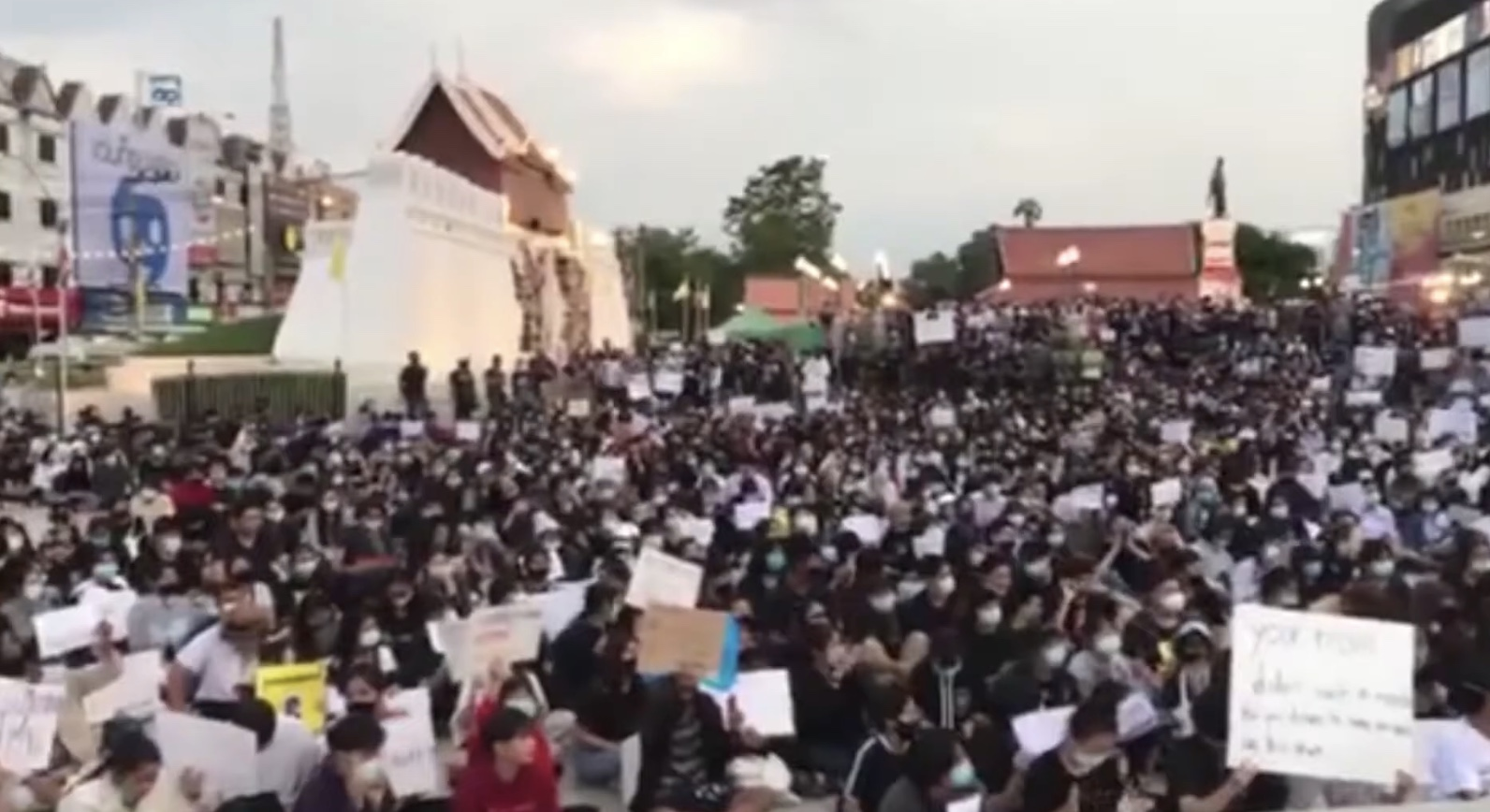 Korat protest 2020